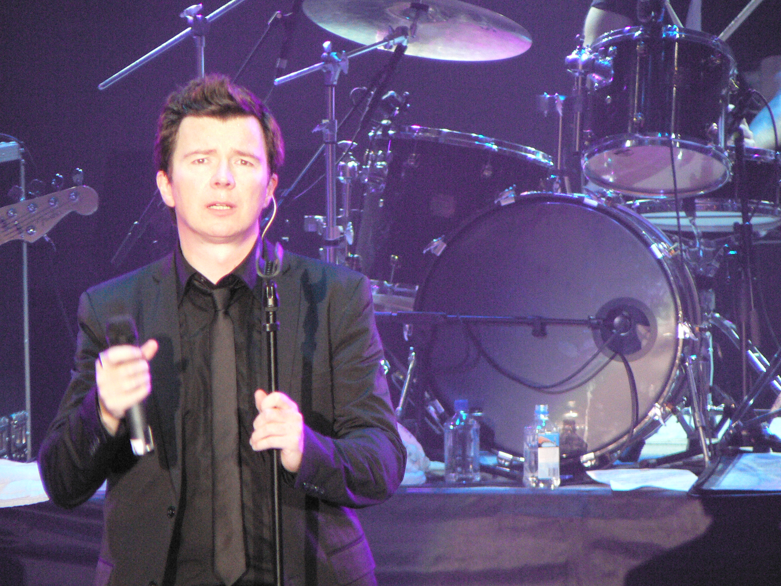 Rick Astley Live in Singapore